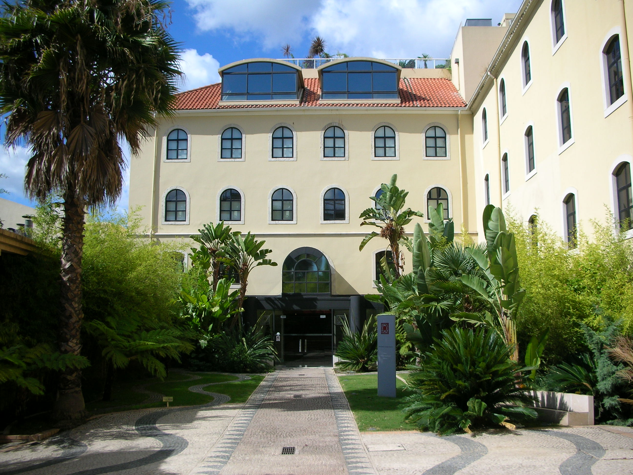 Macao Science and Culture Centre, Lisbon, Portugal. Photograph by Jonathan Bowen, 2005.